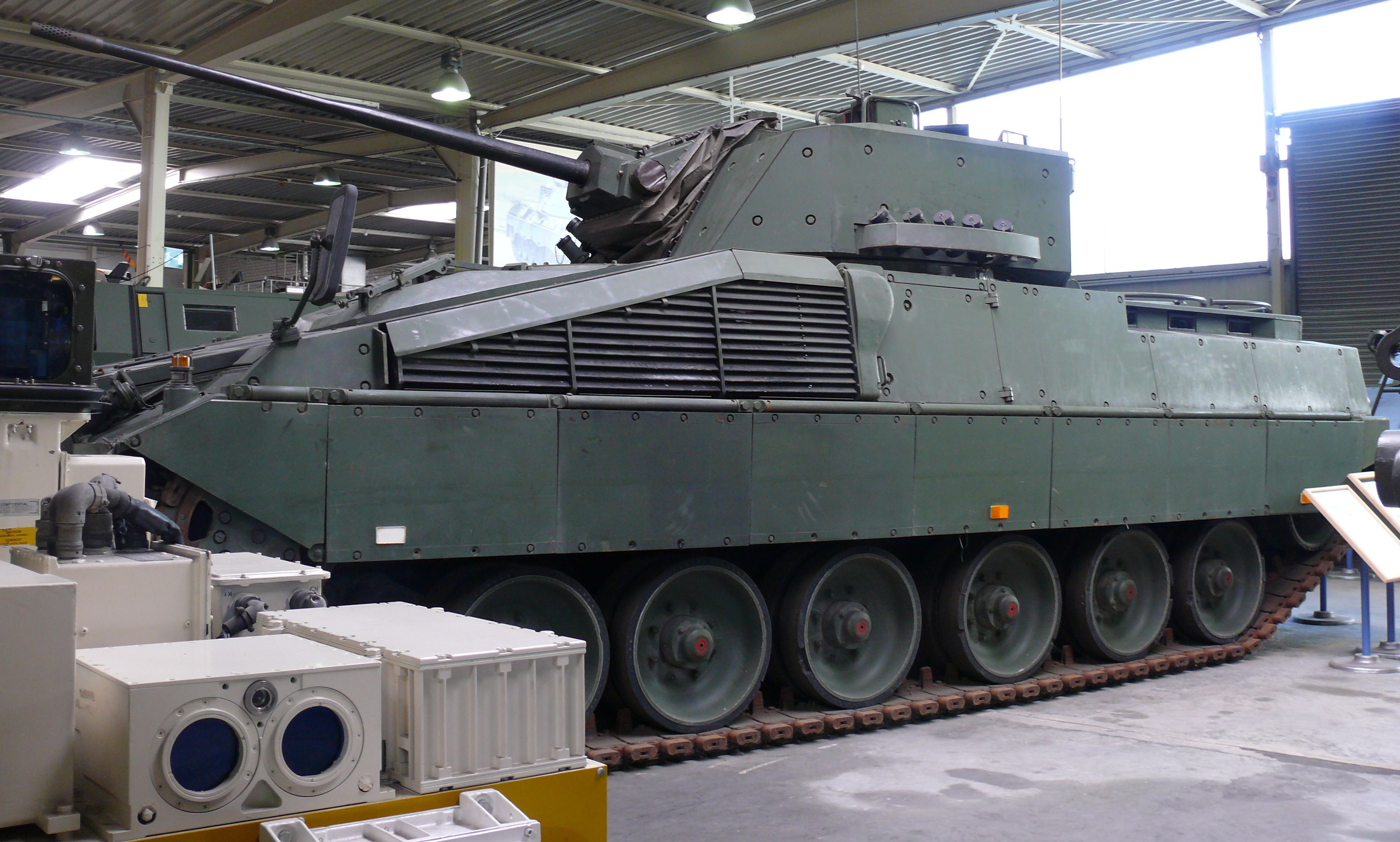 Prototype of the IFV Marder 2.